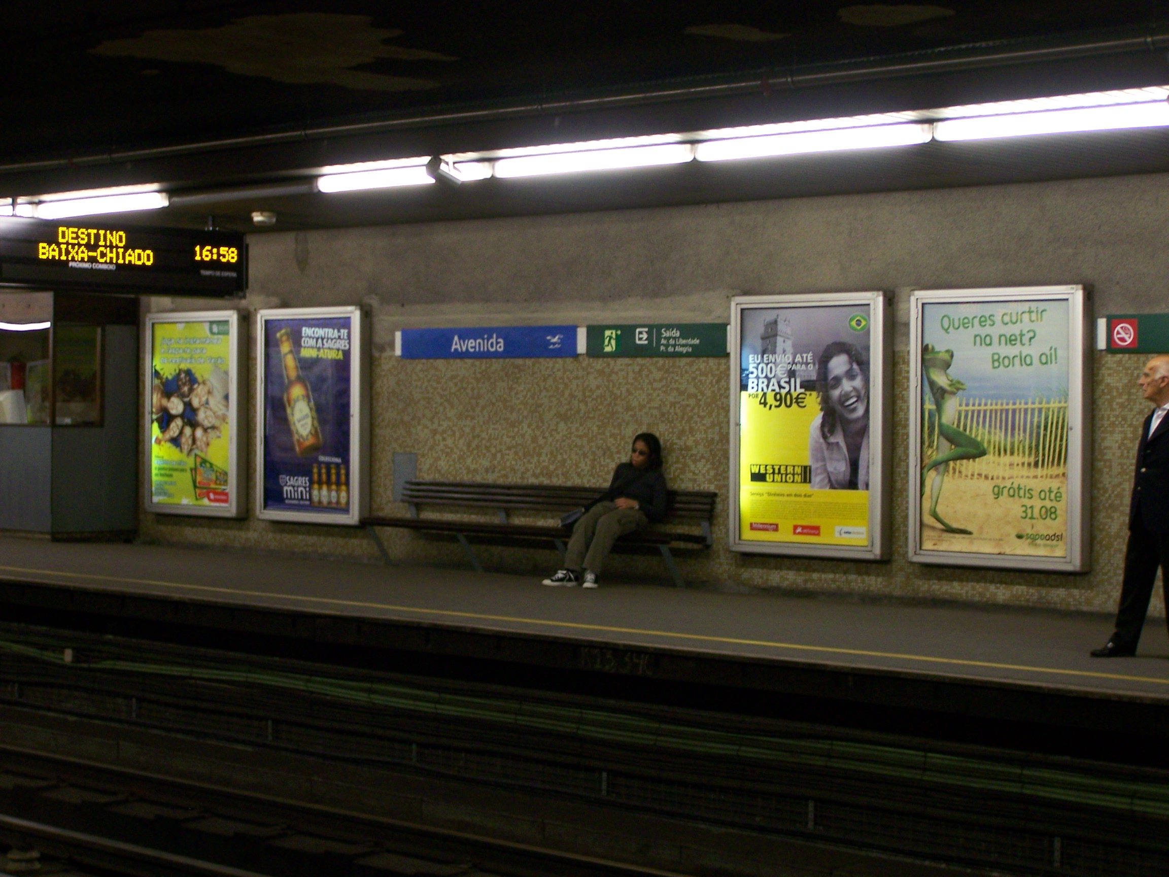 platform of the underground station Avenida, Lisbon, Portugal